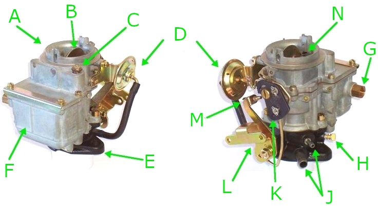 Bendix-Stromberg BXUV-3 downdraft carburetor